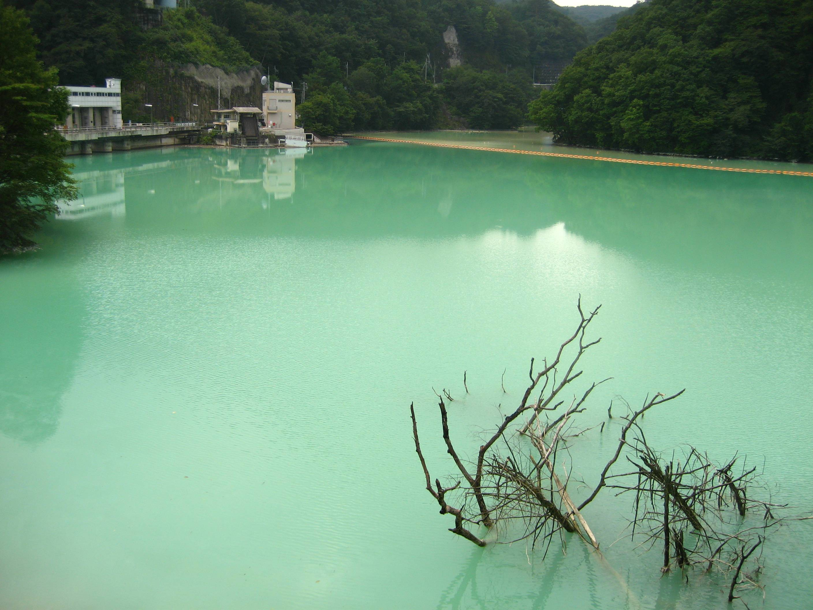 Shinaki Dam (品木ダム) in Kuni village, Gunma prefecture, Japan.